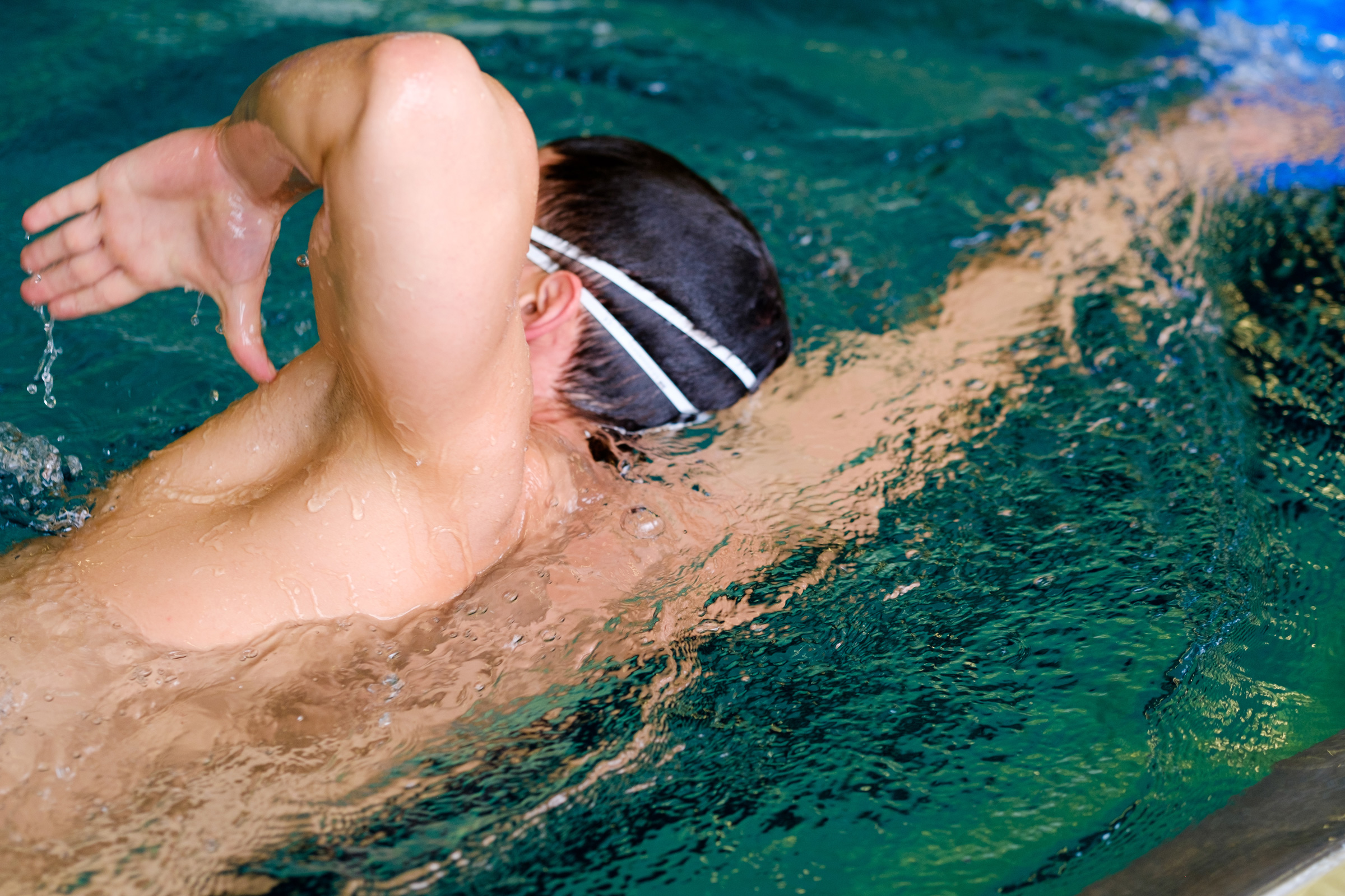 Training of the front crawl movements is important to gain efficiency and speed. The arm move can be separated into four parts: the downsweep, the insweep, the upsweep, and the recovery.